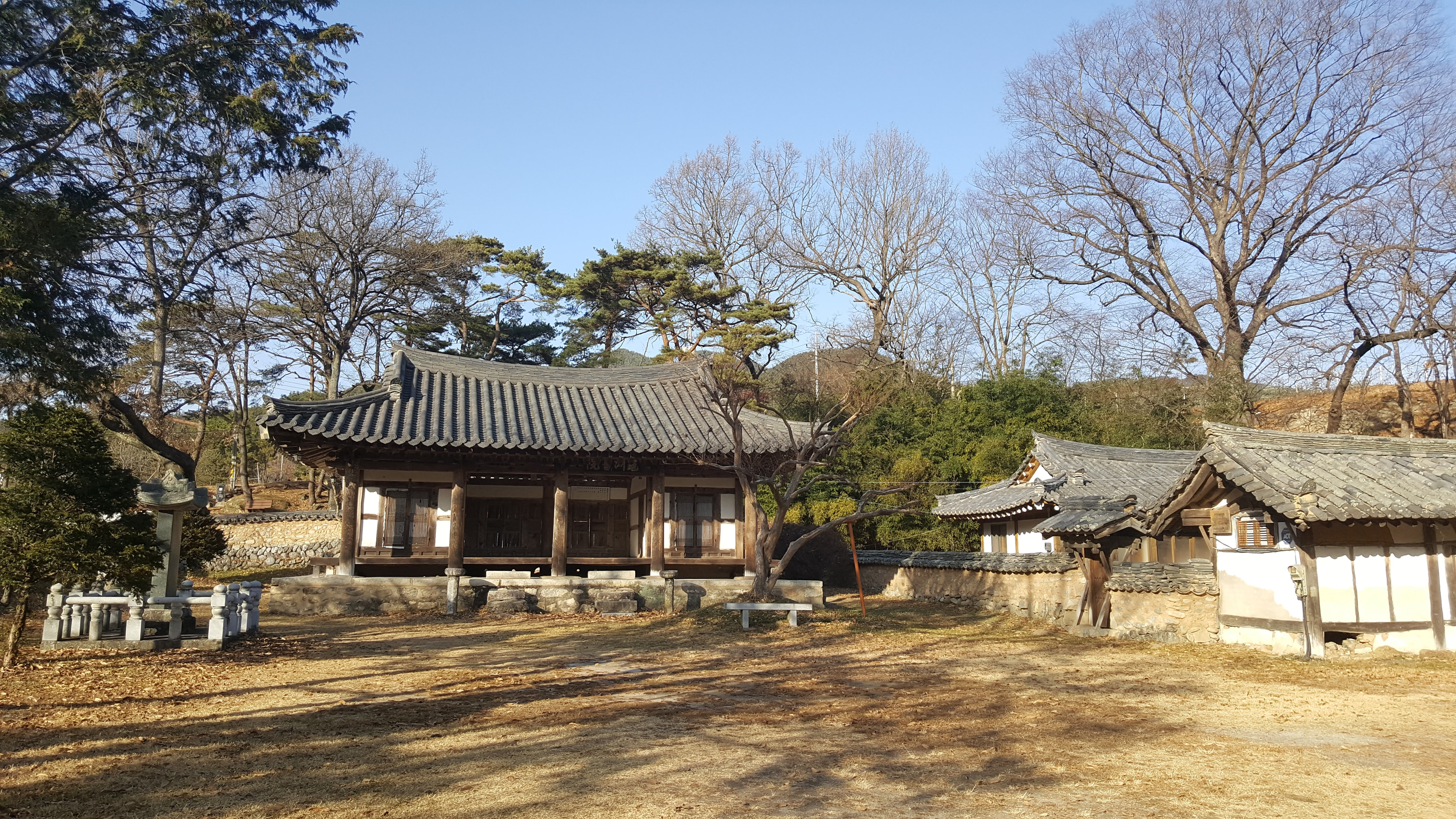 A school in Wicheon, Geochang, South Korea